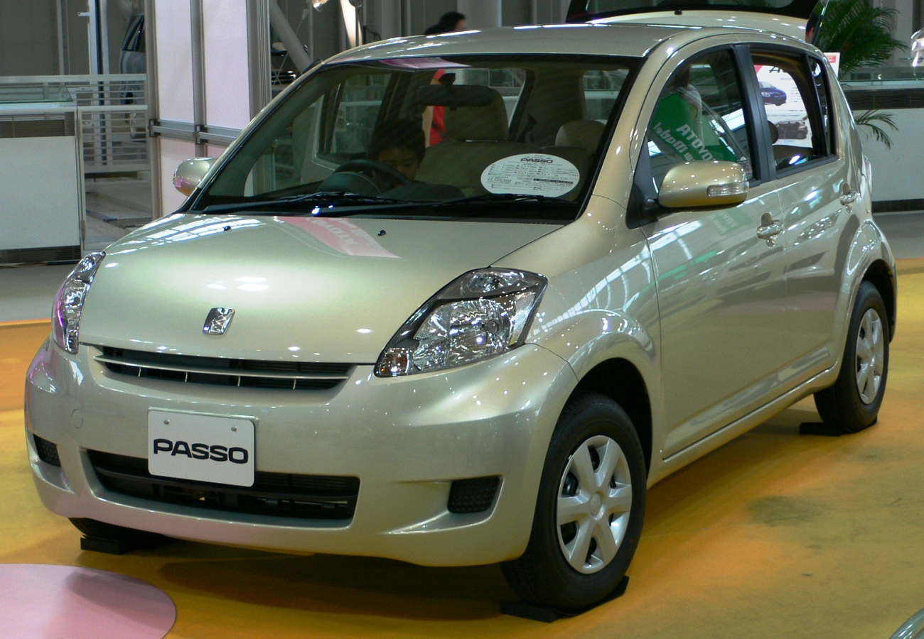 Toyota_Passo(2006 - )photographed in MEGAWEB